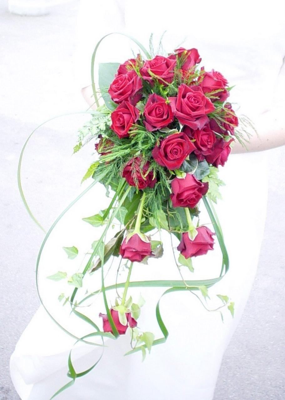 Image title: Wedding bouquet red reses Image from Public domain images website